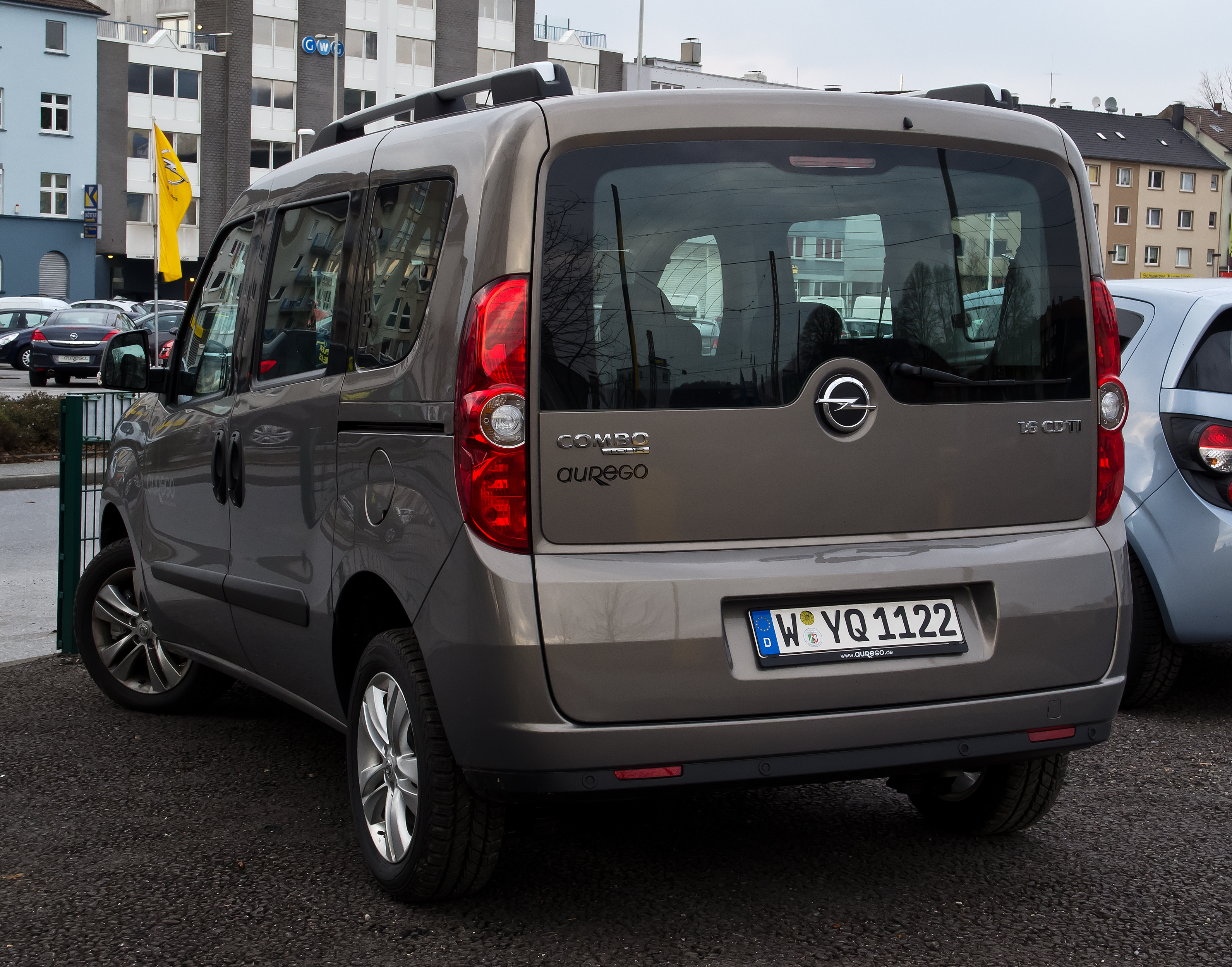 Opel Combo 1.6 CDTI Edition (D)